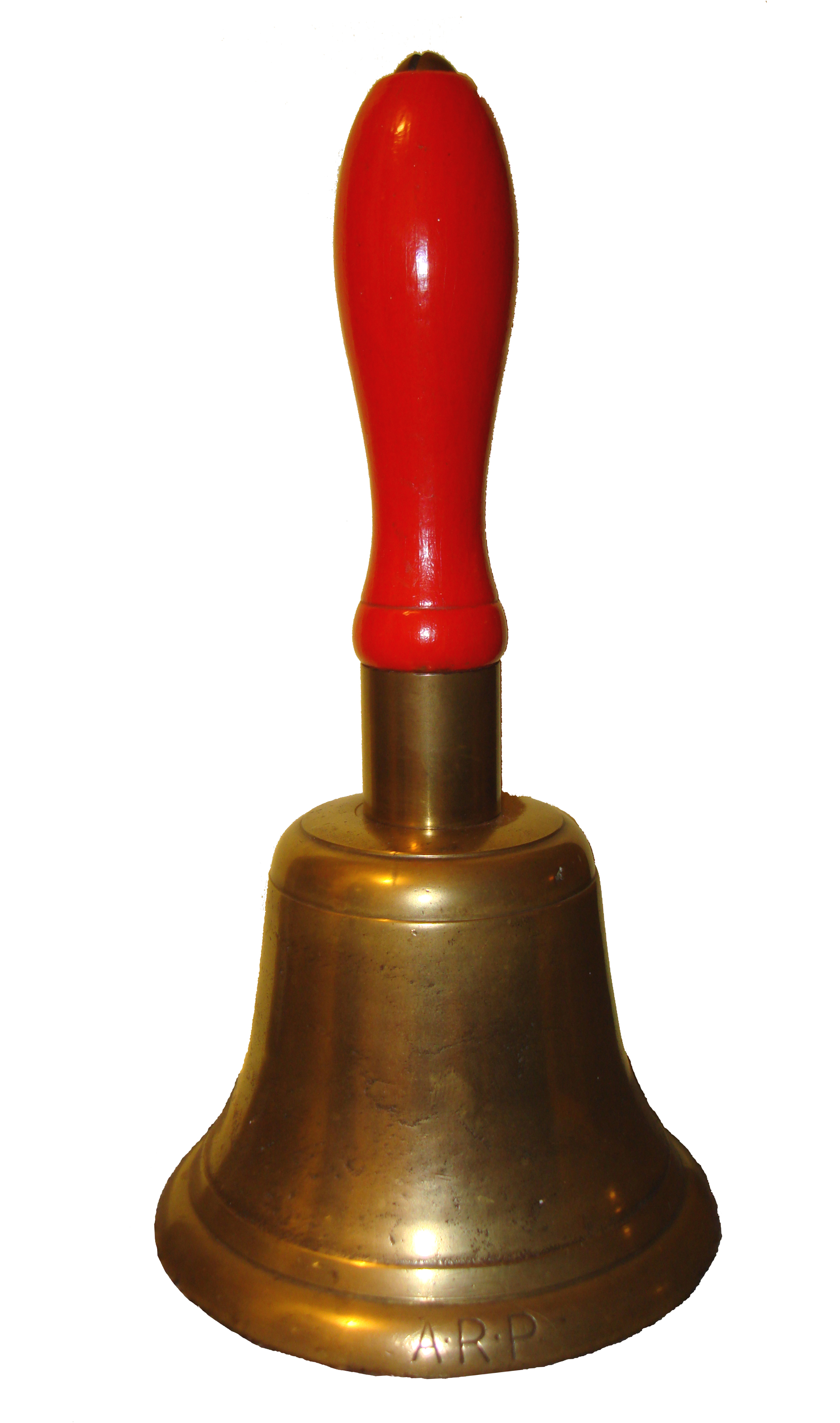 An A.R.P. (Air Raid Precautions) bell